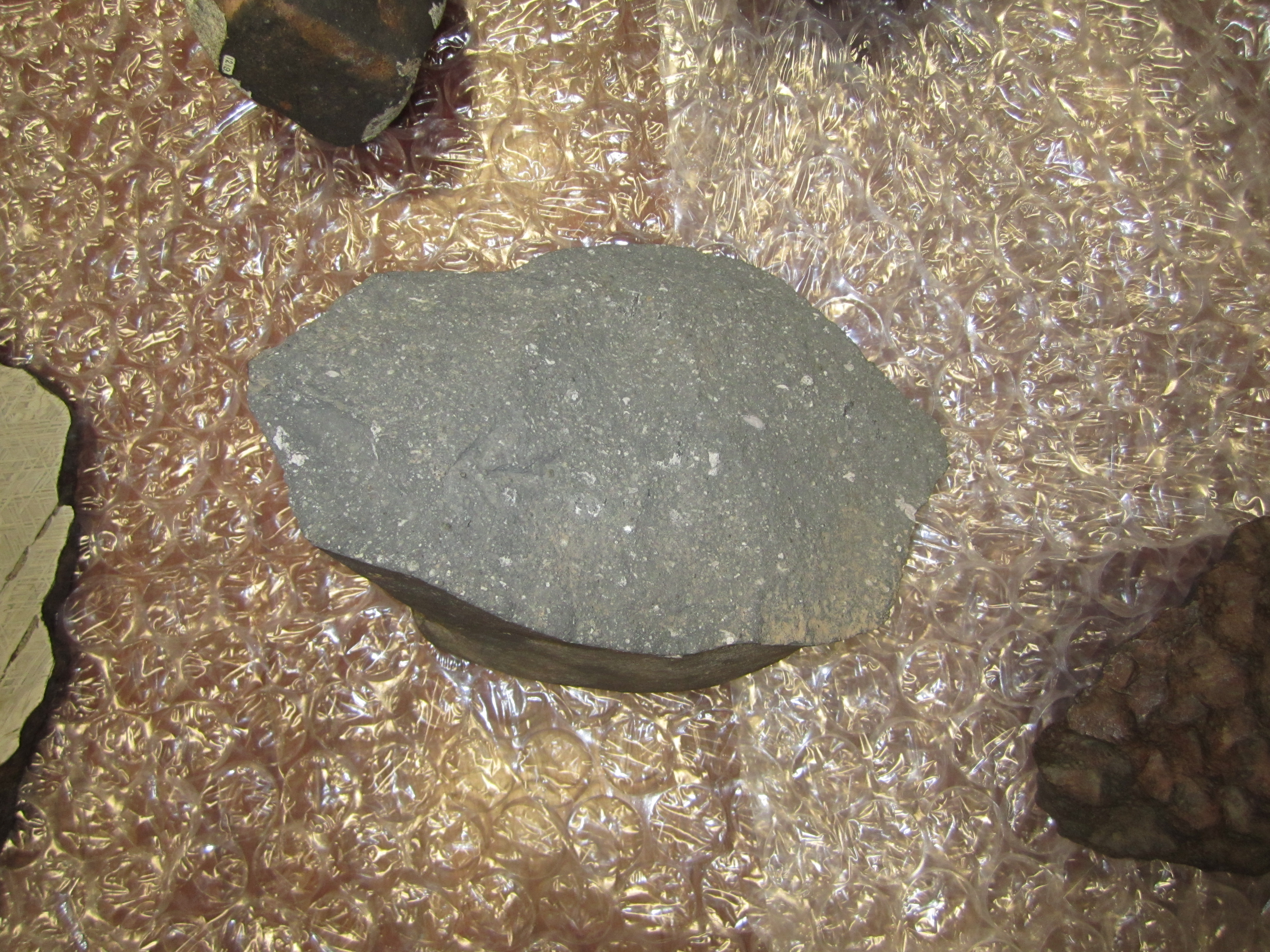 CAI (white specks) in chondrite meteorite, the oldest material in the solar system. From the collection of the American Museum of Natural History.